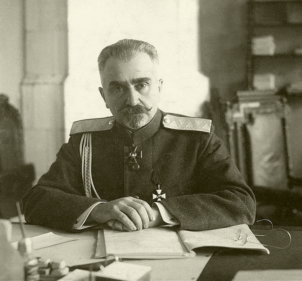 Yuri N. Danilov, General of Infantry (1914), Quartermaster-General of the Russian General Headquarters (1914-1915), Chief of Staff of the Northern Front (1916-1917), assistant chief of Military Directorate of the Armed Forces of South Russia (1920).